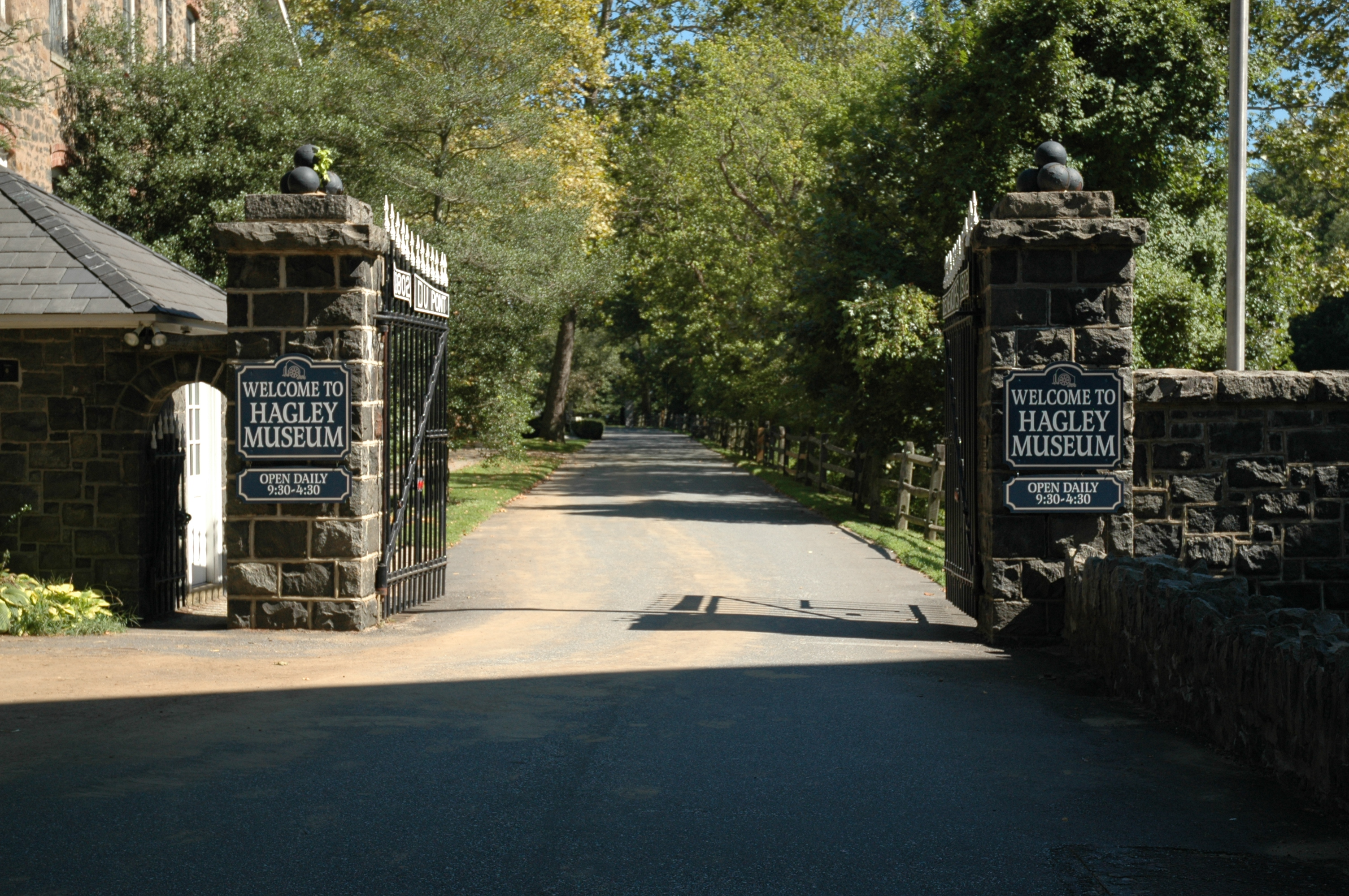 Entrance to Hagley Museum along the banks of the Brandywine Creek. The museum documents the early industrialization of the United States and the origins of the DuPont Company.